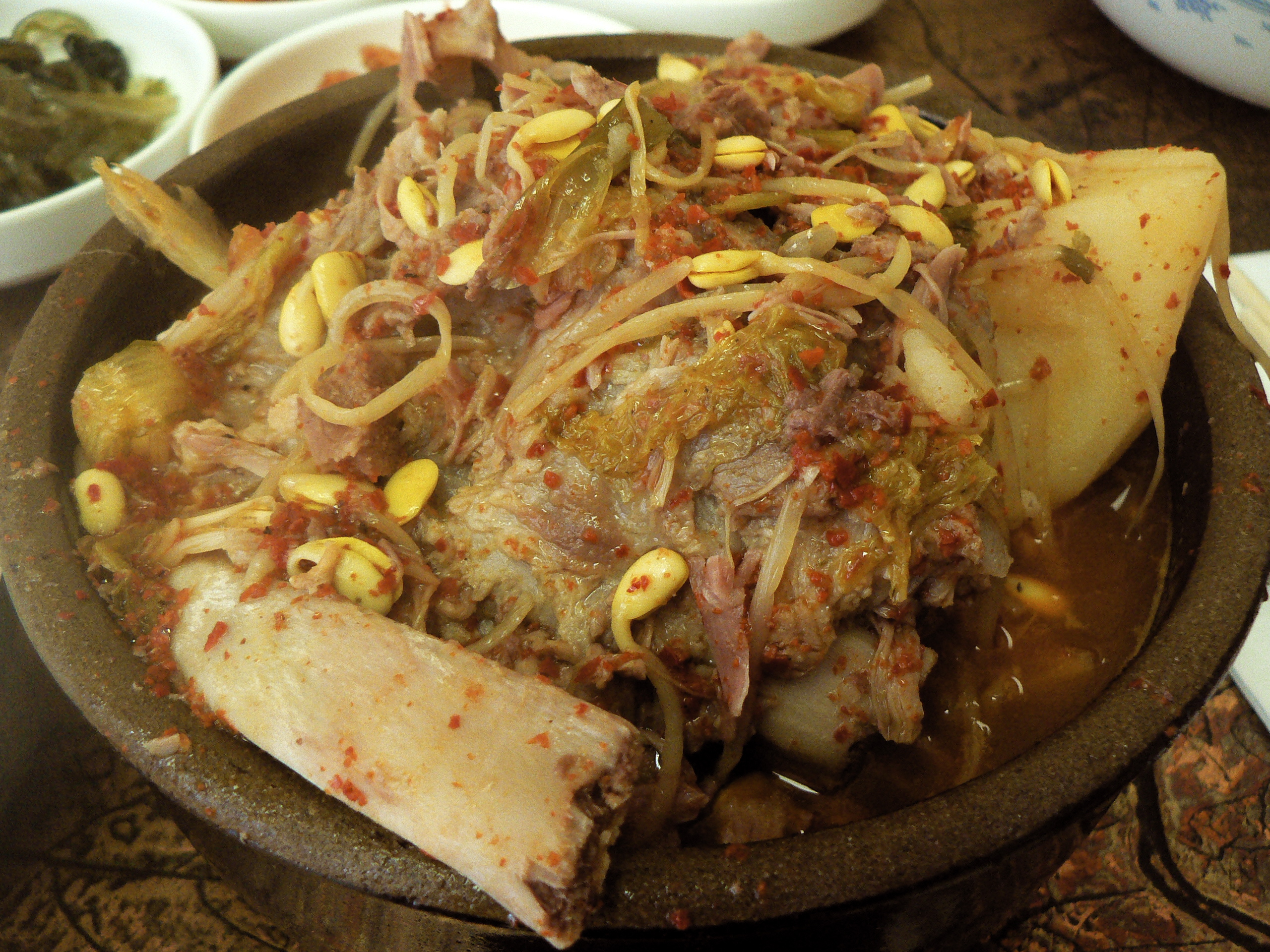 Pork Bone Soup At Seoul Diner, Bloor St.